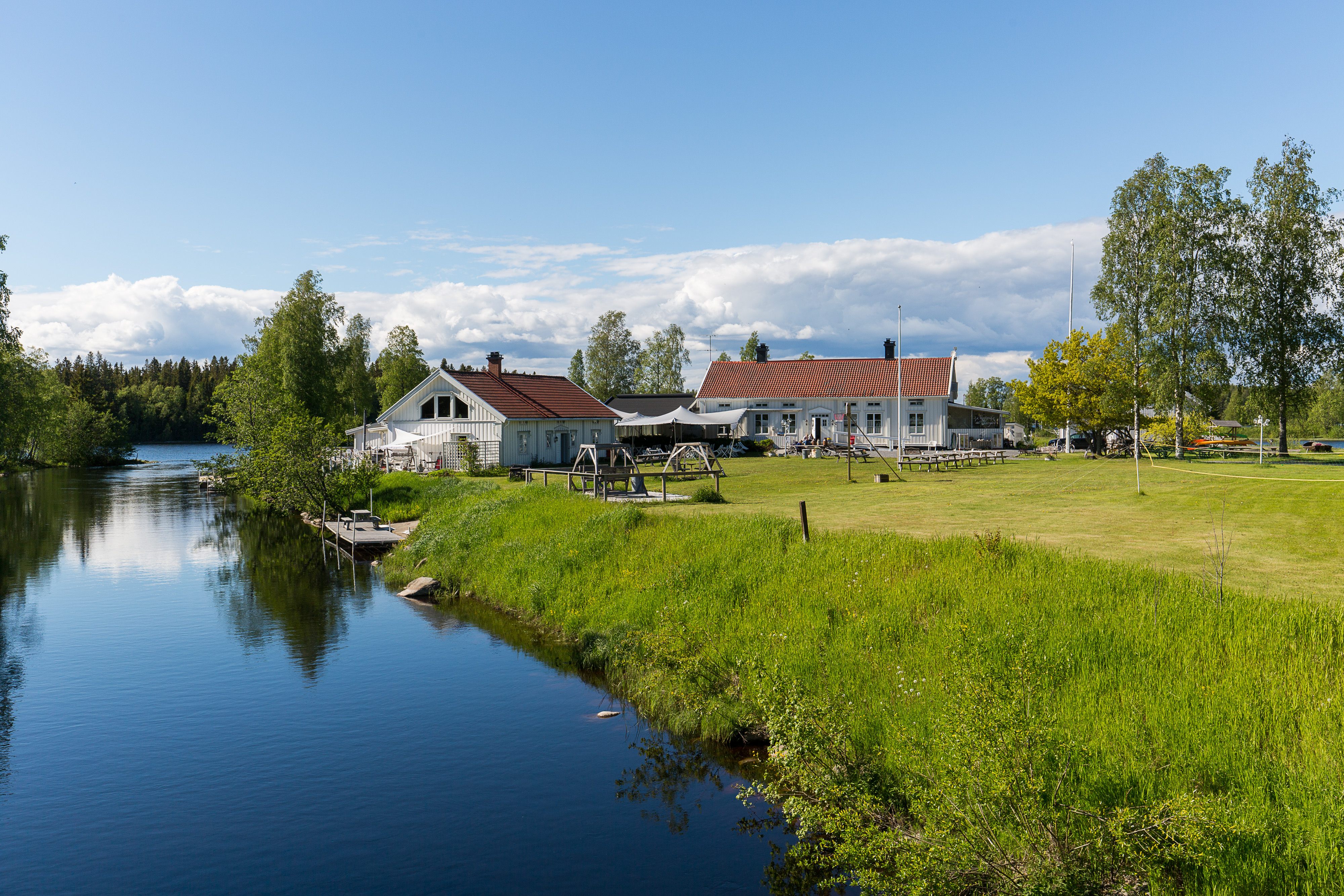 The Skeppsvik mansion, close to the mouth of the Sävar river.